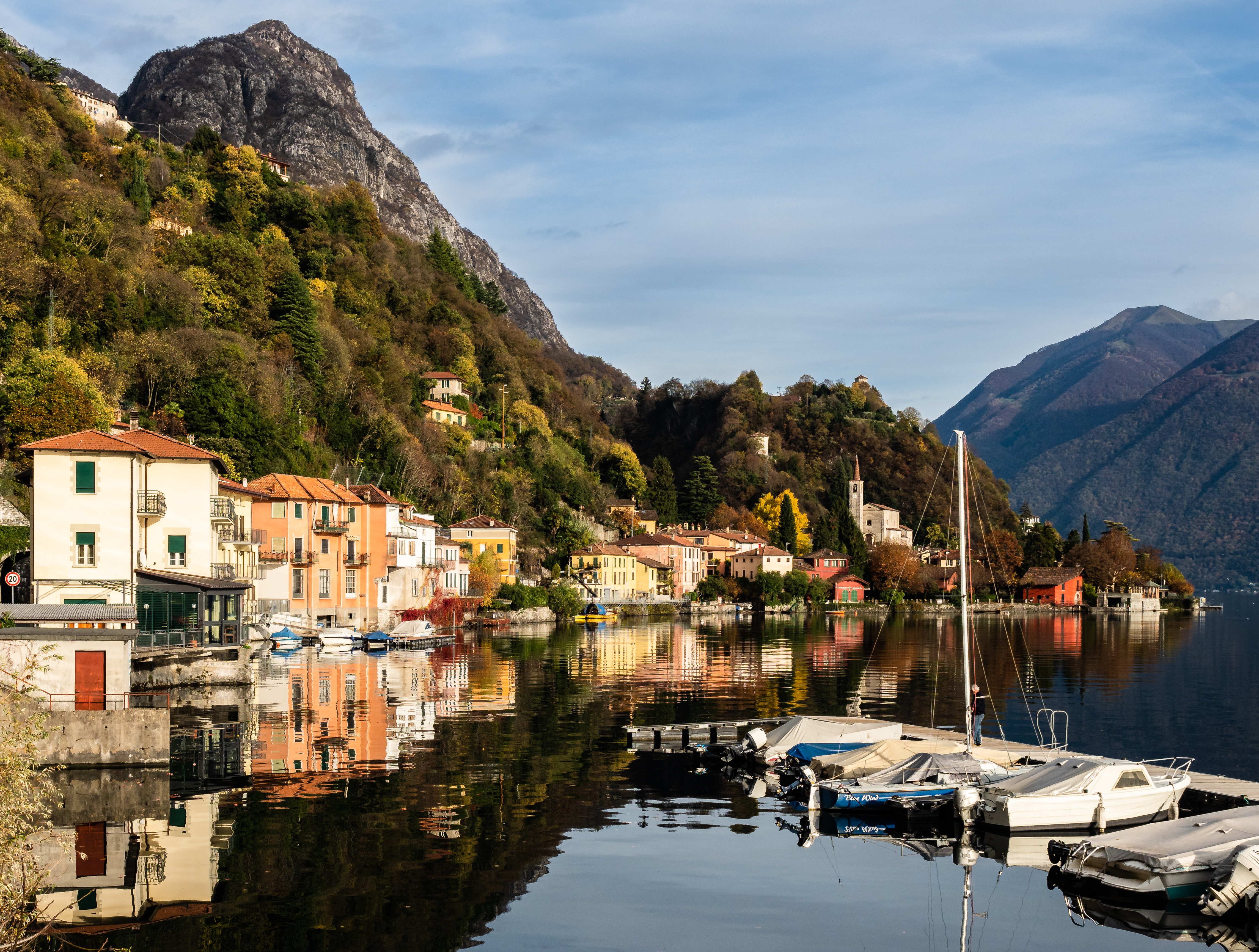 Valsolda, San Mamete, Lombardia